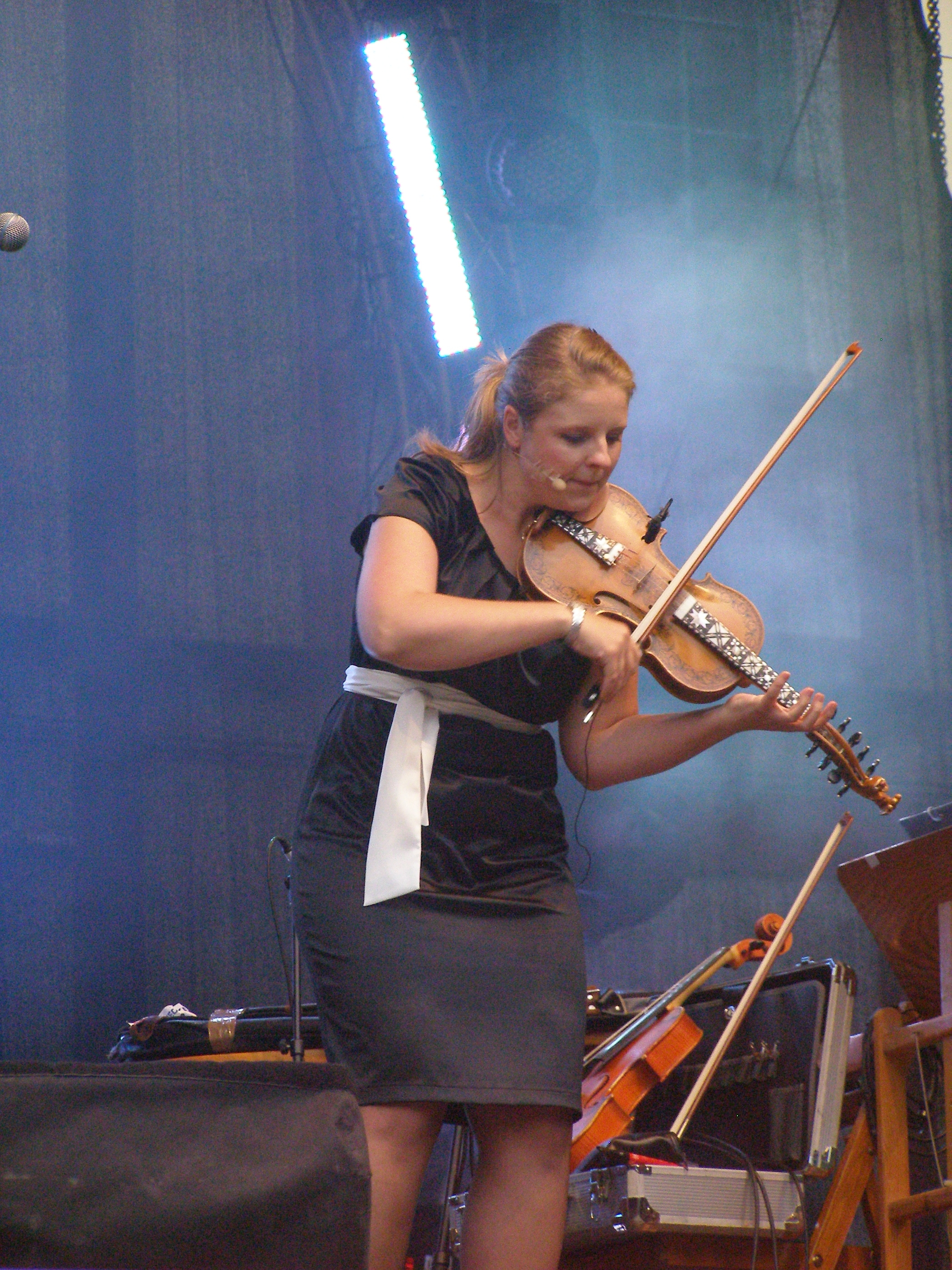 Gdańsk - Jorun Marie Kvernberg - Seabridge: Tindra & Kroke concert during the 30th Festival of Music Inspired by Folklore "Sounds of the North. Norwegian Panorama" in the Adam Mickiewicz Oliwa Park.